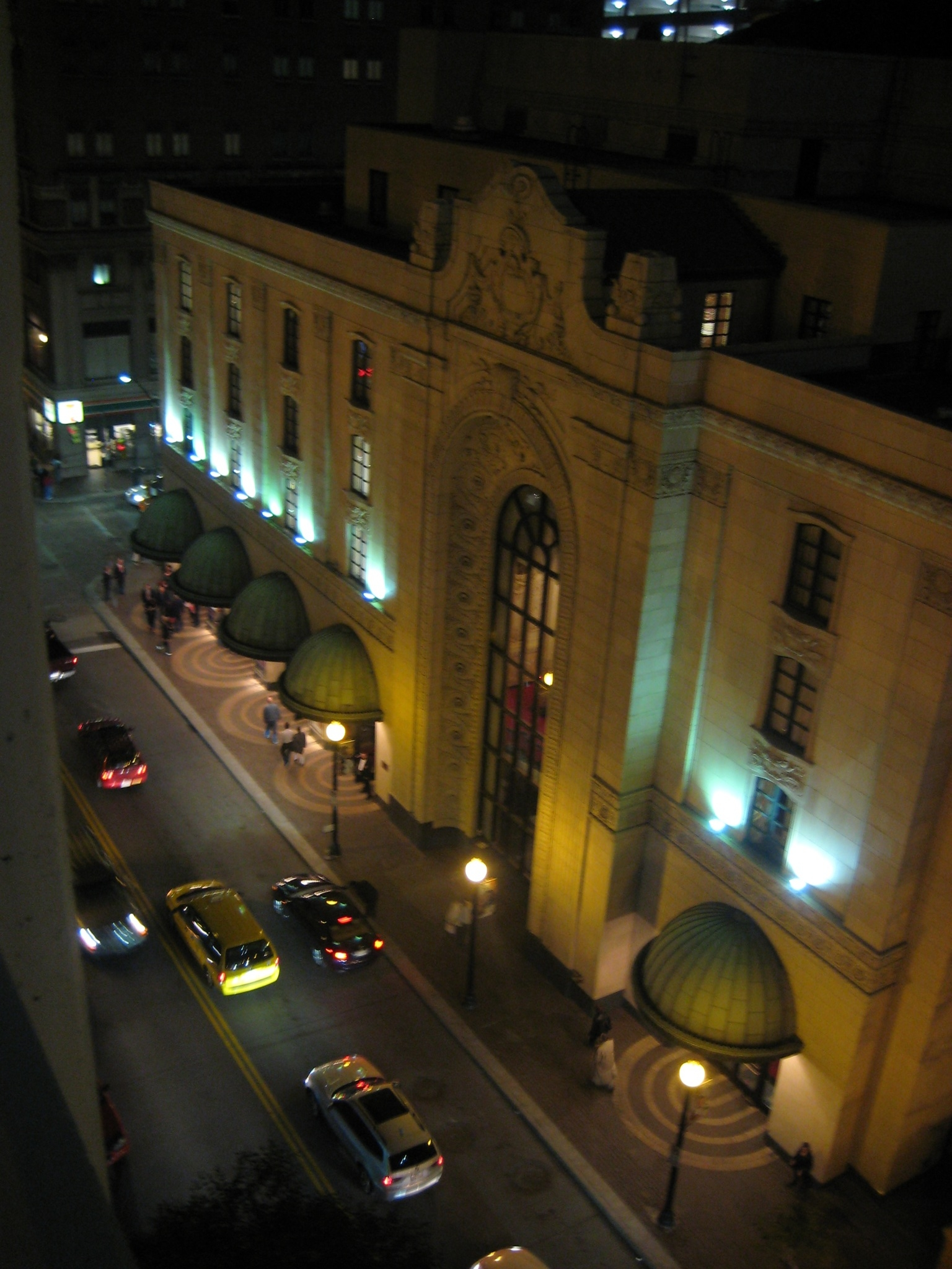 Heinz Hall, at Pittsburgh, Pennsylvania, United States.